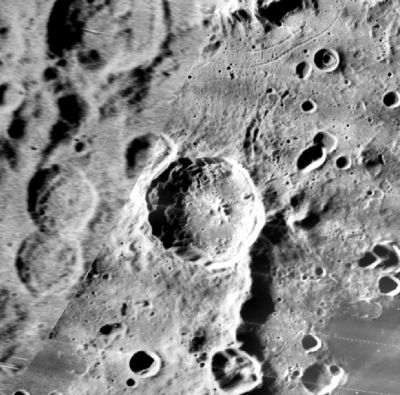 Lunar Orbiter image from Map-A-Plane